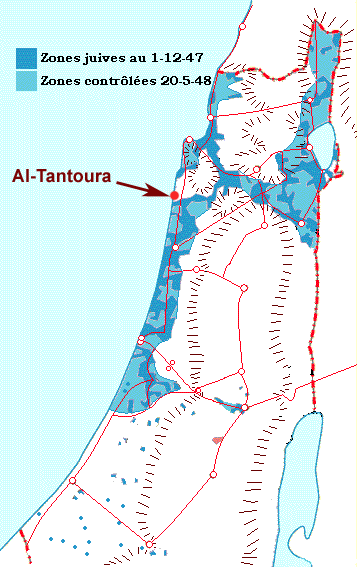 Al-Tanura position, a big arab village attaqued by alexandroni brigad (haganah) on 23 may 1948, for the full control of the road between Tel-Aviv and Haïfa. The village controlled the last palestinian "pocket" on the cost.